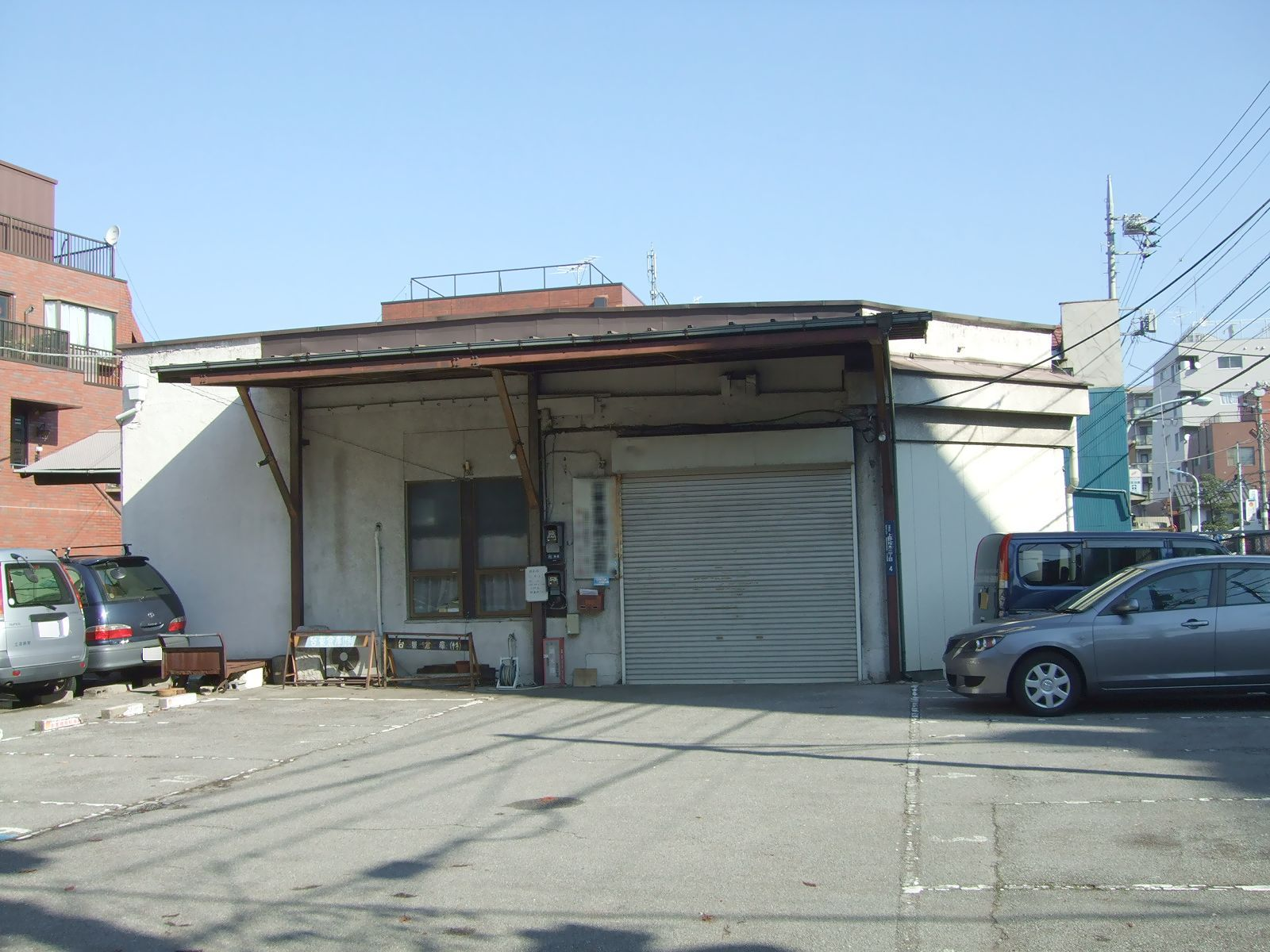 The ruin of Kan-eijisaka Station, Keisei Main Line, Uenosakuragi 2, Taito Ward, Tokyo.